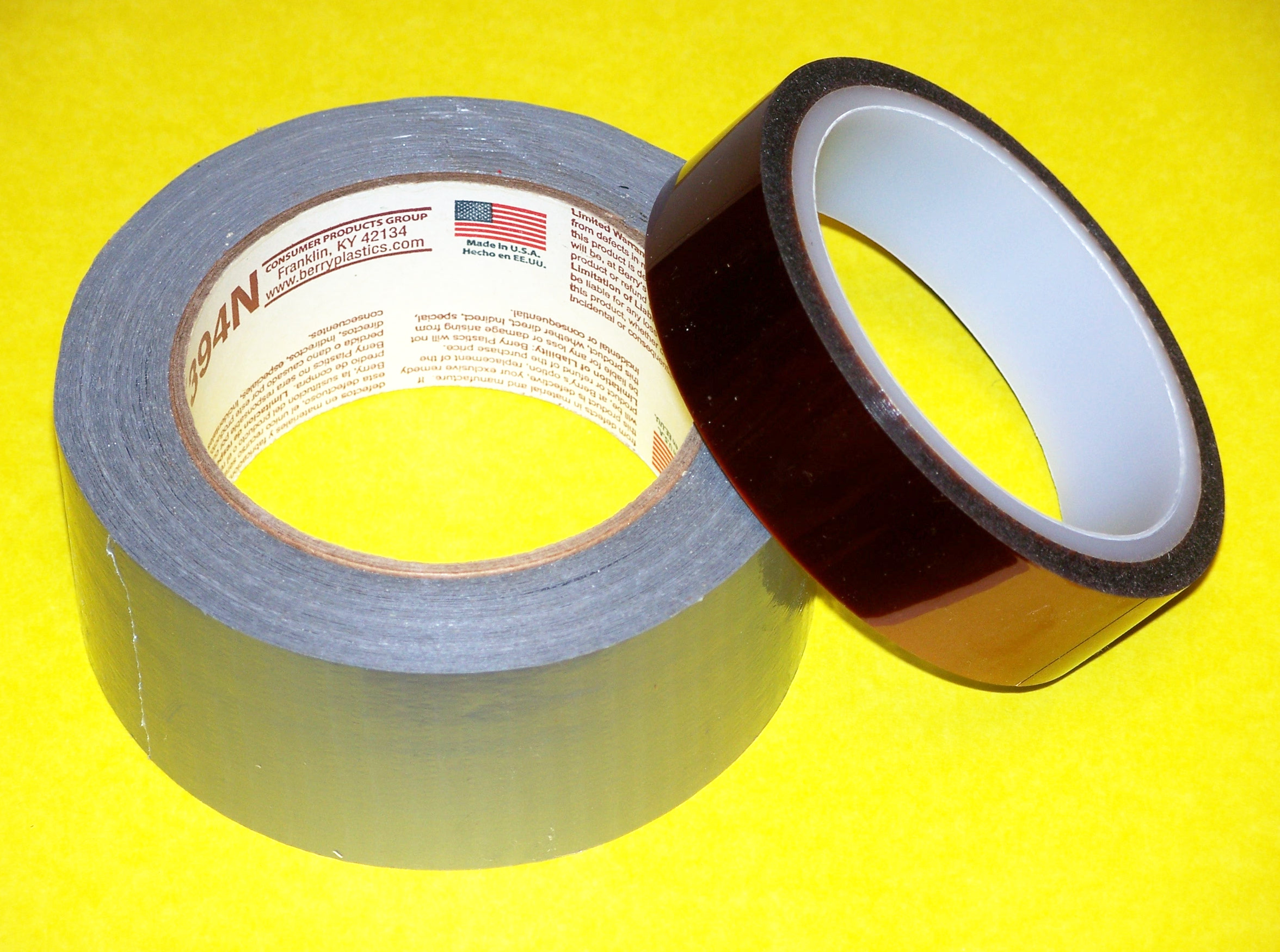 Roll of duct tape (left) and Kapton tape (right)